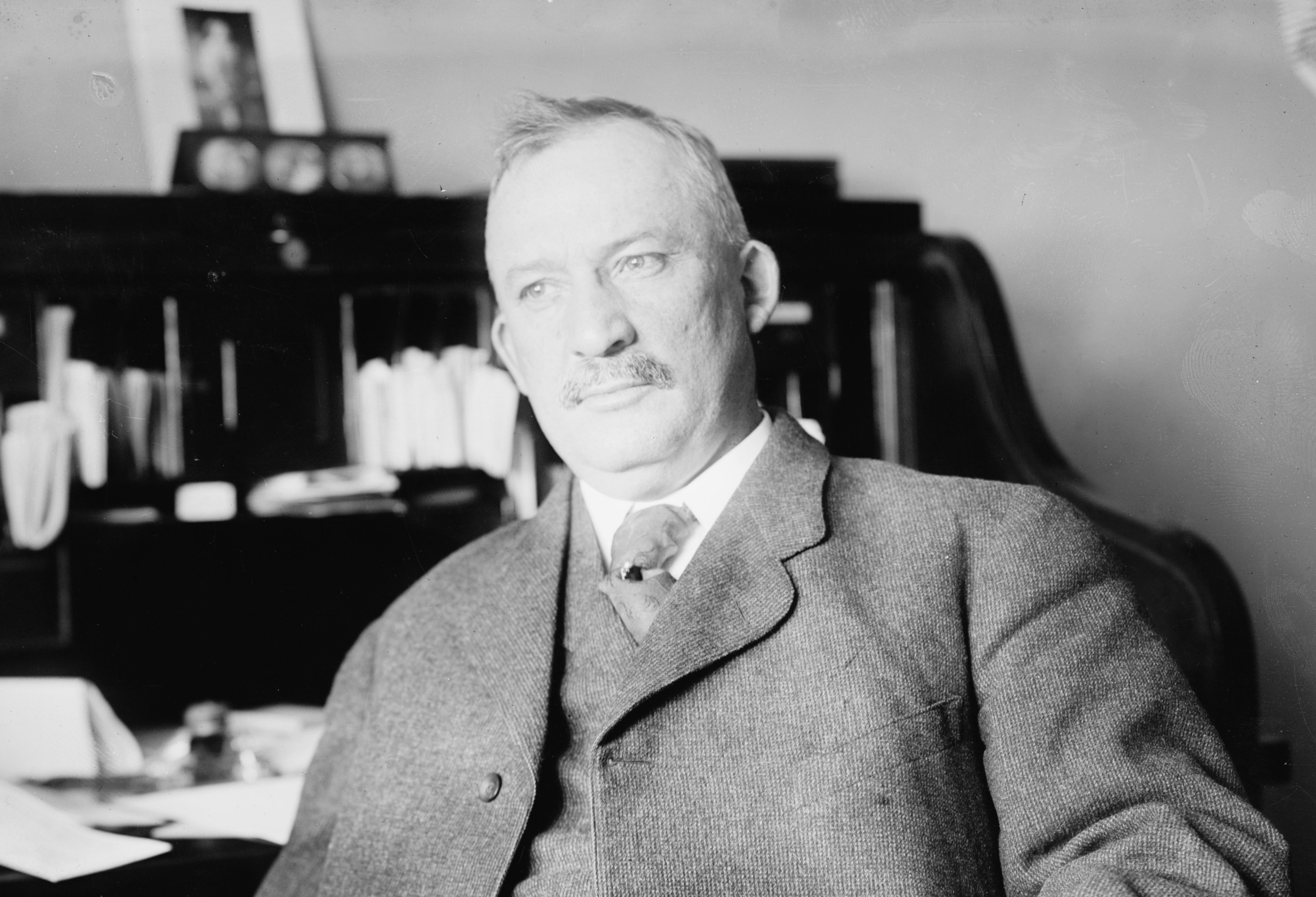 James Hay (1856-1931), American politician from Virginia